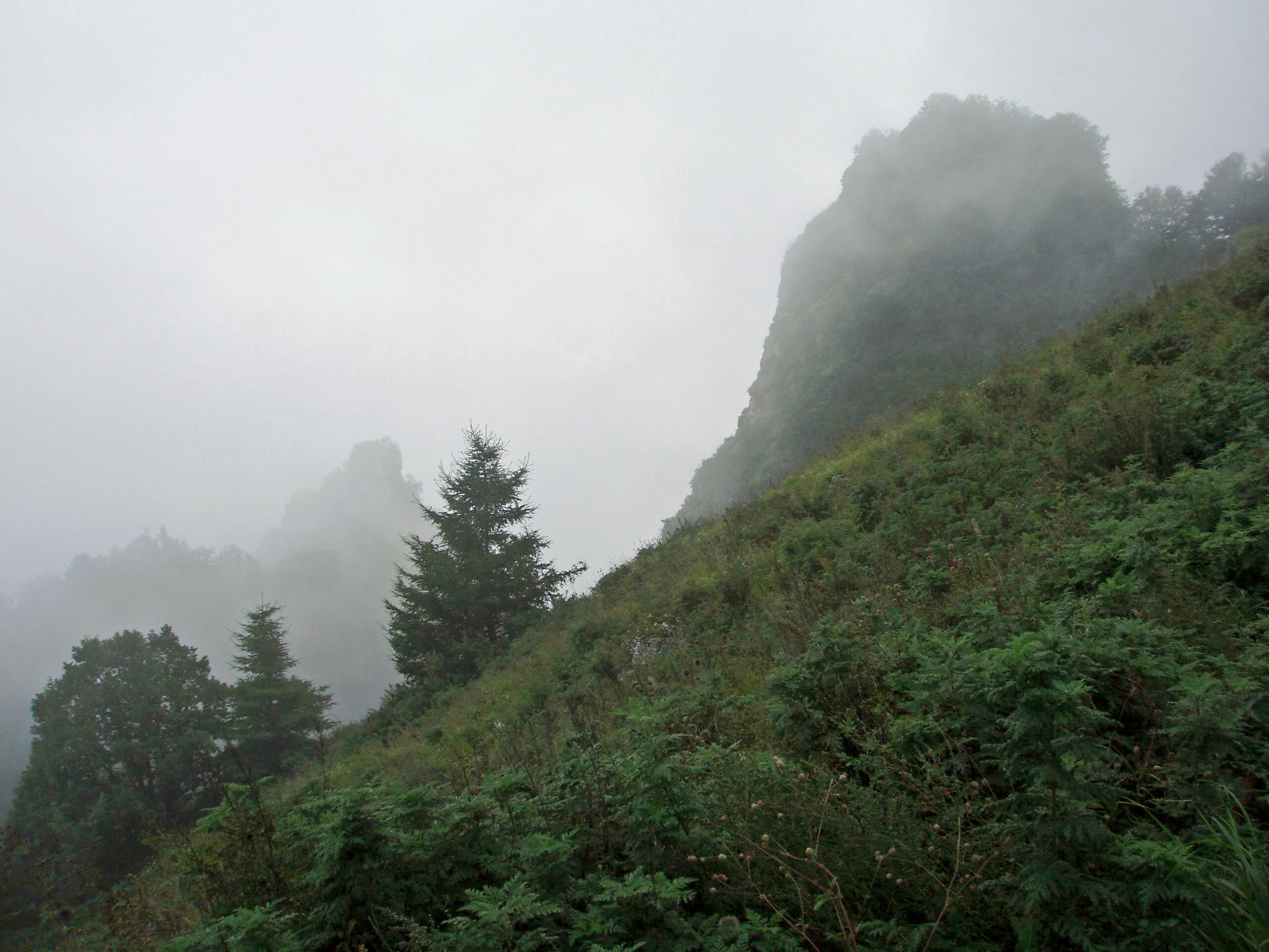 Taihang Shan Mountains in North China